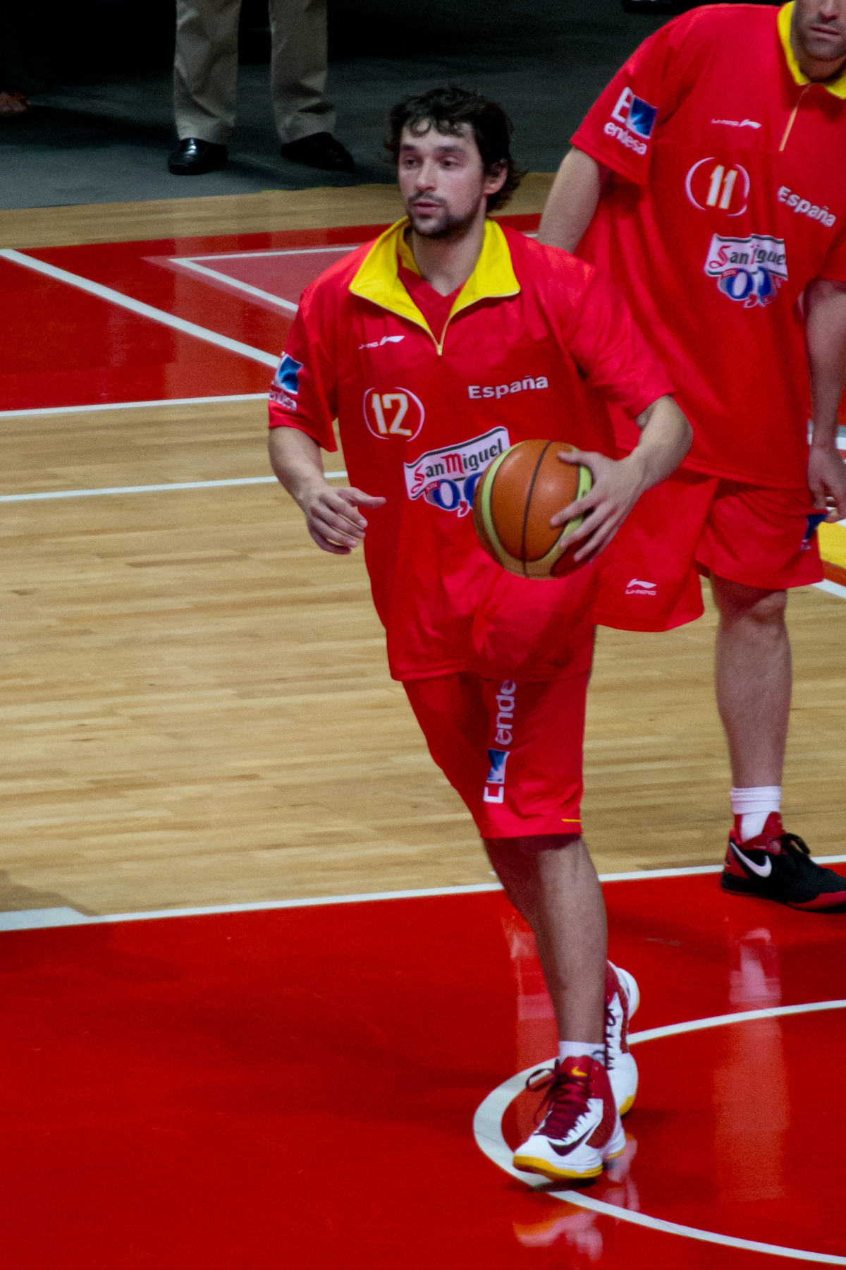 Sergio Llull with Spain national basketball team.